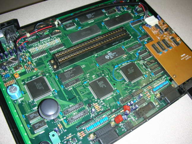 Source: Robert Ivy (myself). This is a photo of my Neo Geo AES motherboard. Attribution: Attribution details.